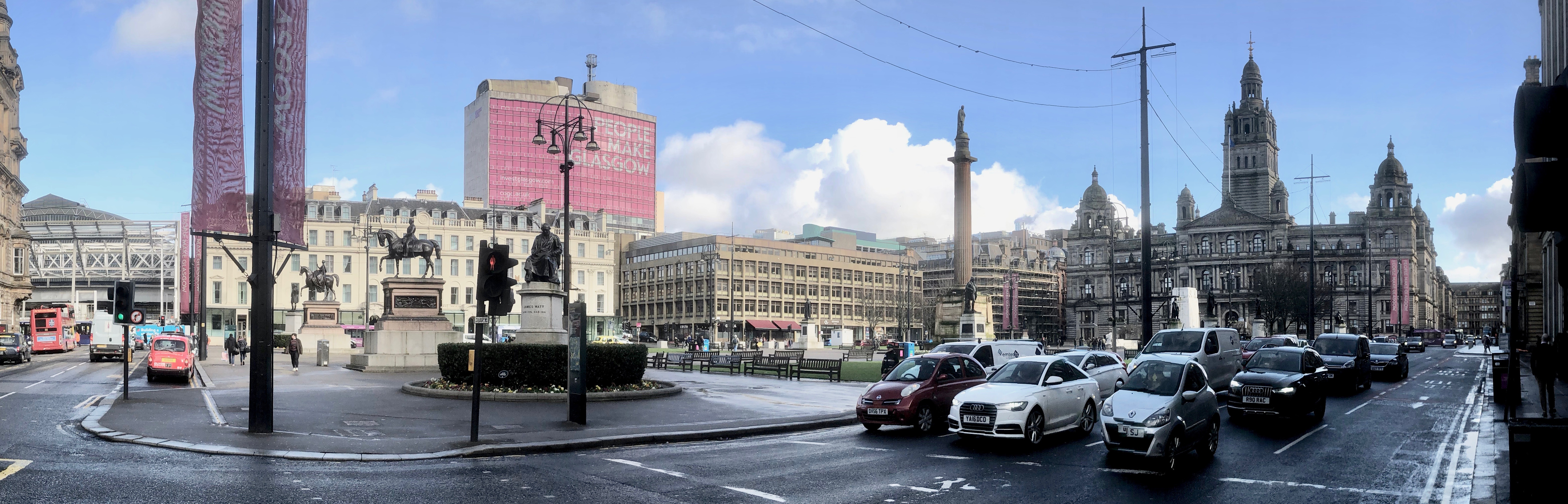 Panoramic view of George Square, Glasgow, from the view up Queen Street to the new station entrance, along the north side past North British / Millennium Hotel and George House with Glasgow College of Building and Printing tower block in the background, to Glasgow City Chambers on the east side.